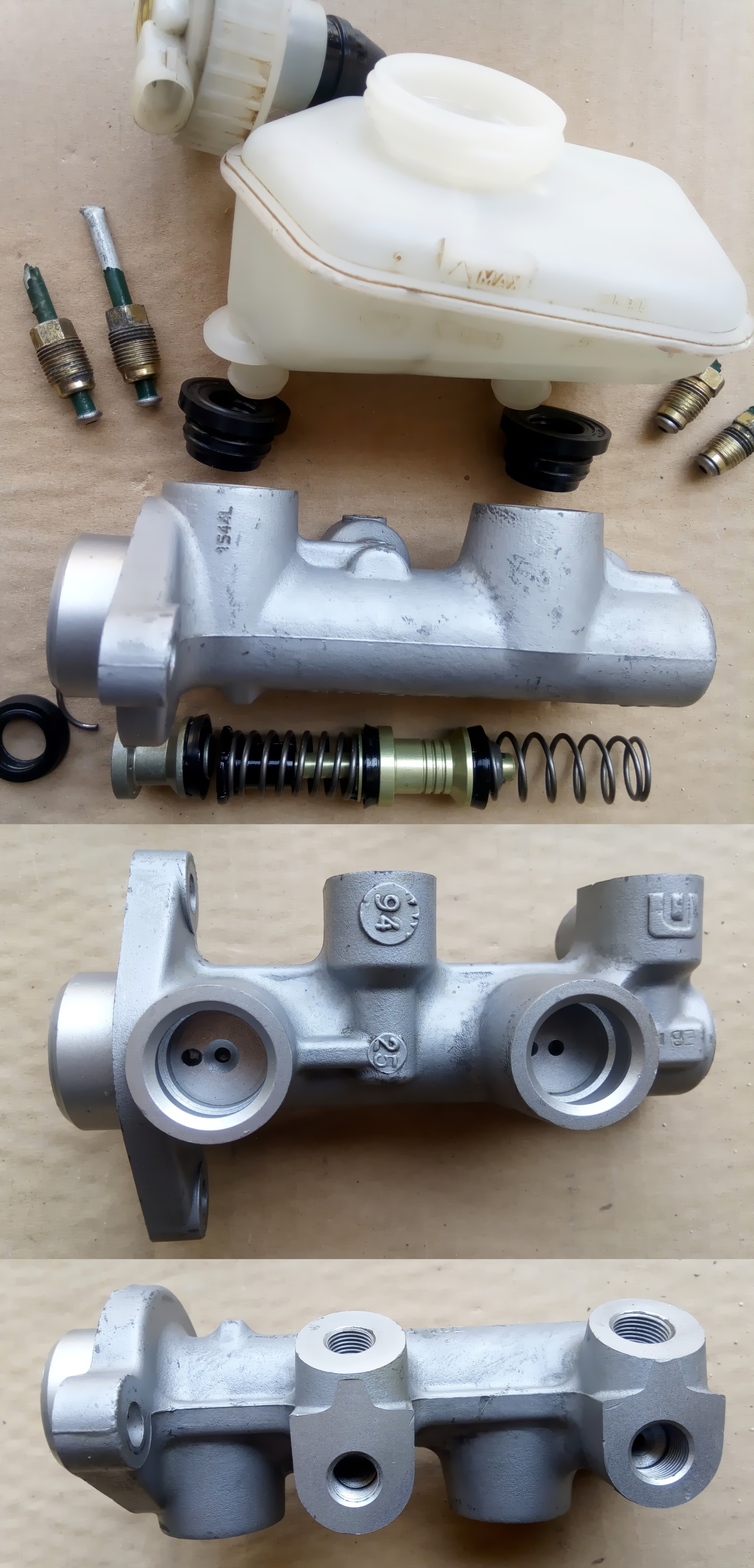 Brake pump for braking system diagonally subdivided